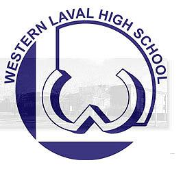 School logo used both at origin location and CPHS location